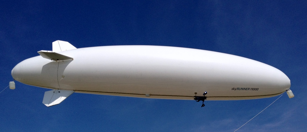 Skyrunner is polish UAV Blimp made by sky&you company